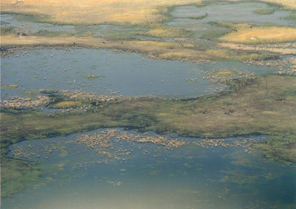 The Okavango Delta seen from a light aircraft, with grazing buck. Taken 1995 on Fujifilm.